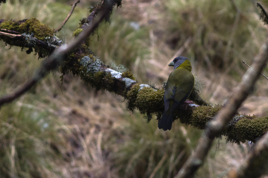 The species Collared Grosbeak female had been photographed from Pangolakha Wildlife Sanctuary in East Sikkim, India on 05.05.2016.